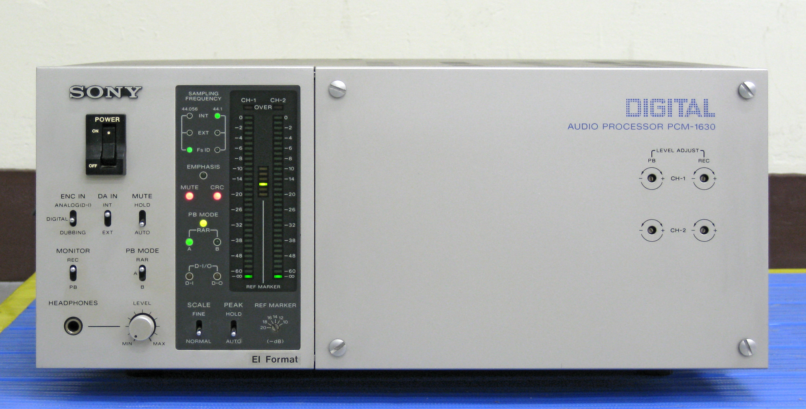 SONY Digital Audio Processor PCM-1630.